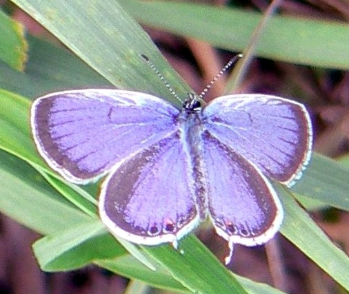 The Eastern-tailed blue butterfly is common across eastern North America.